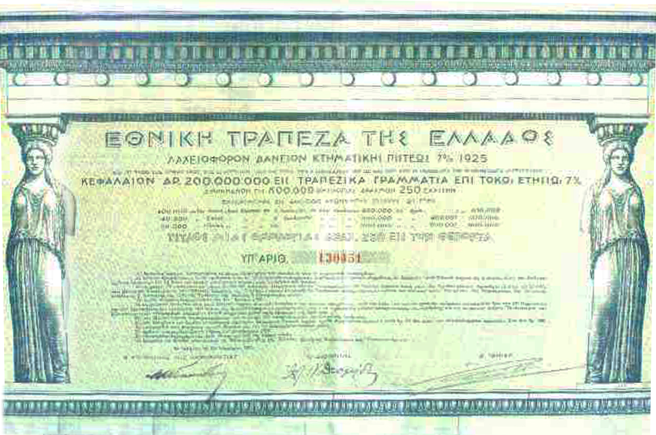 Stock 1925 series of the National Bank of Greece